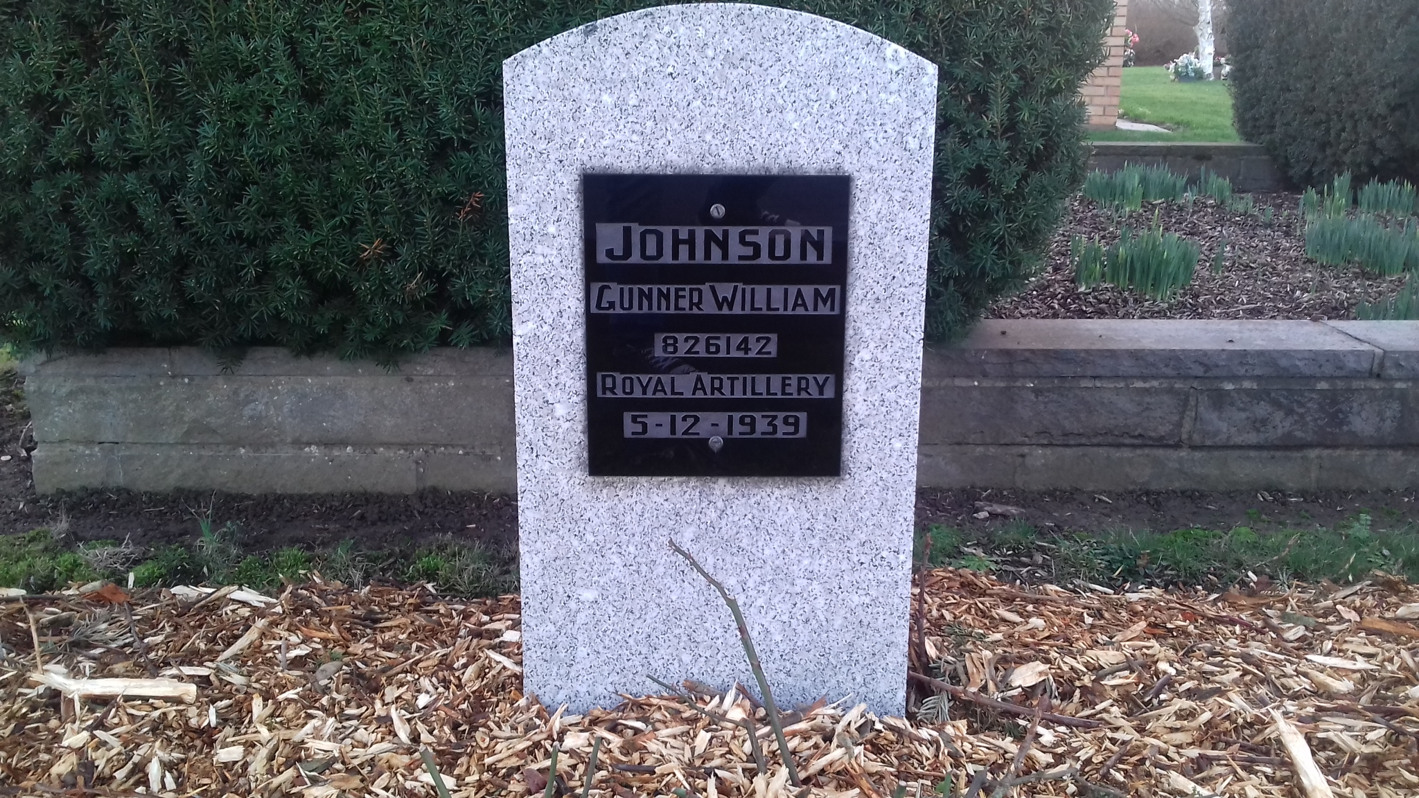 William Johnson, gunner of the 30th British Artillery Regiment stationed at Wasquehal, died at the Dragon Lock on December 6, 1939 at 8:15 am. He is buried in the military square of the Center cemetary and then in the military square of Plomeux cemetary. William Johnson was born February 11, 1913 in Glamorgan County, Wales and is the husband of Nora Maud Johnson. The death certificate is signed by Henry WN Fane, resident in Lincoln, 42 years old.